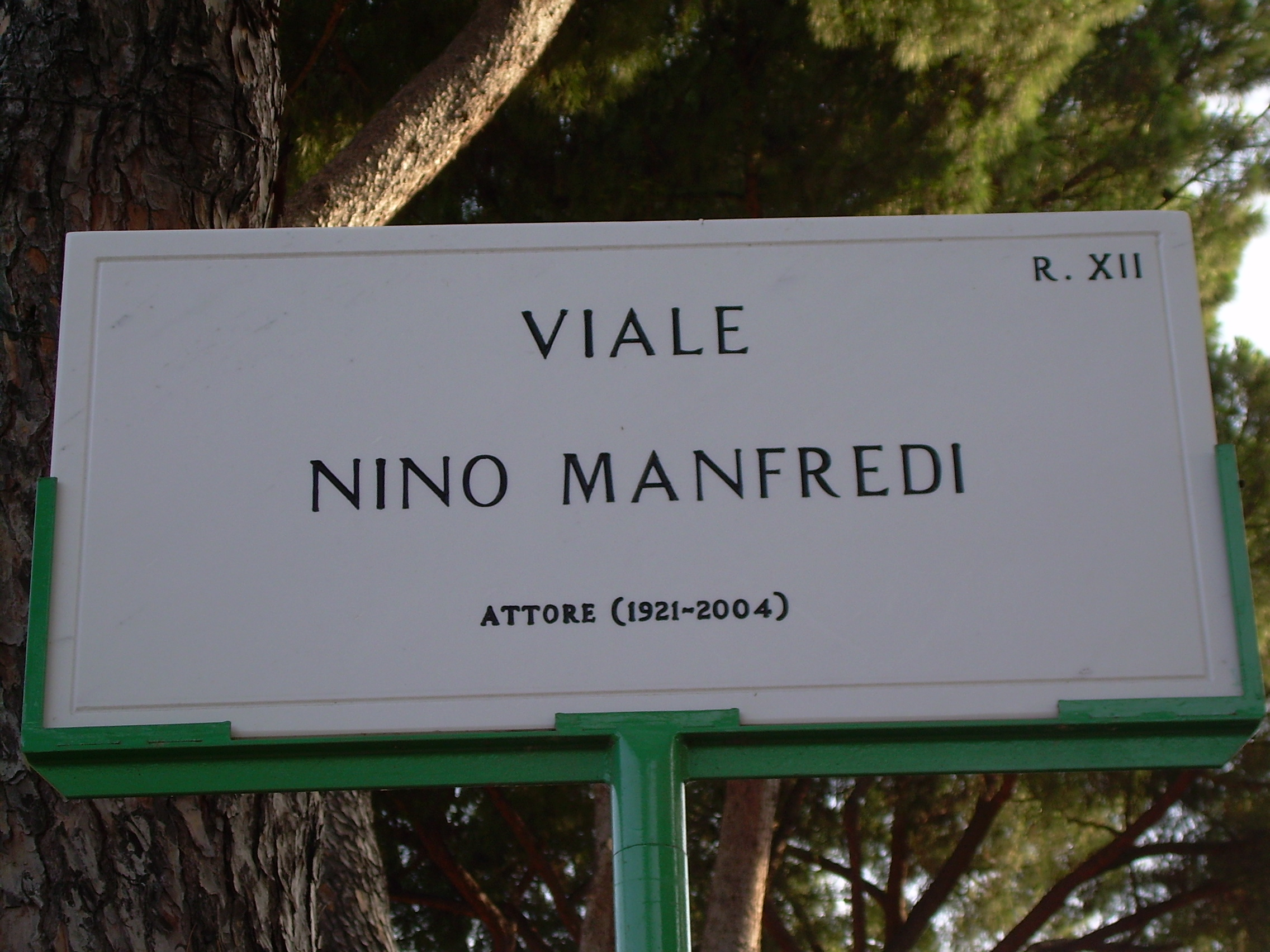 street in Rome, photo by the author